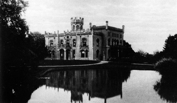 The mansion Gut Mühlenthal in Bremen-Lesum, Germany, around 1880. The Tudor style building was designed after 1860 by Gustav Runge for the entrepreneur Ludwig Knoop. It was dismanteled in 1933.